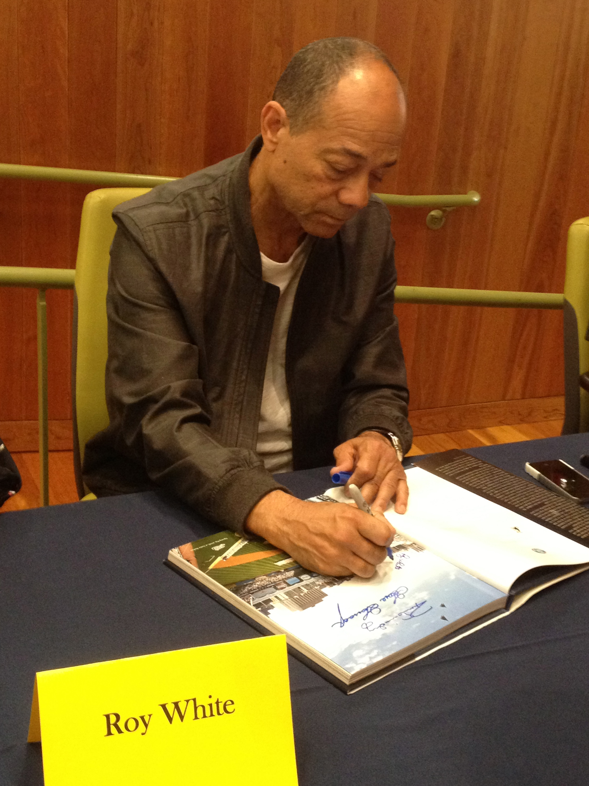 Roy White signing autographs at the Yogi Berra Museum and Learning Center on May 12, 2013.